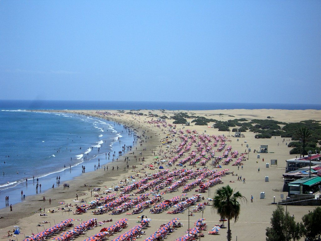 Beach of Playa del Ingles, general view. Gran Canaria, Canary Islands (Spain). Year 2006.